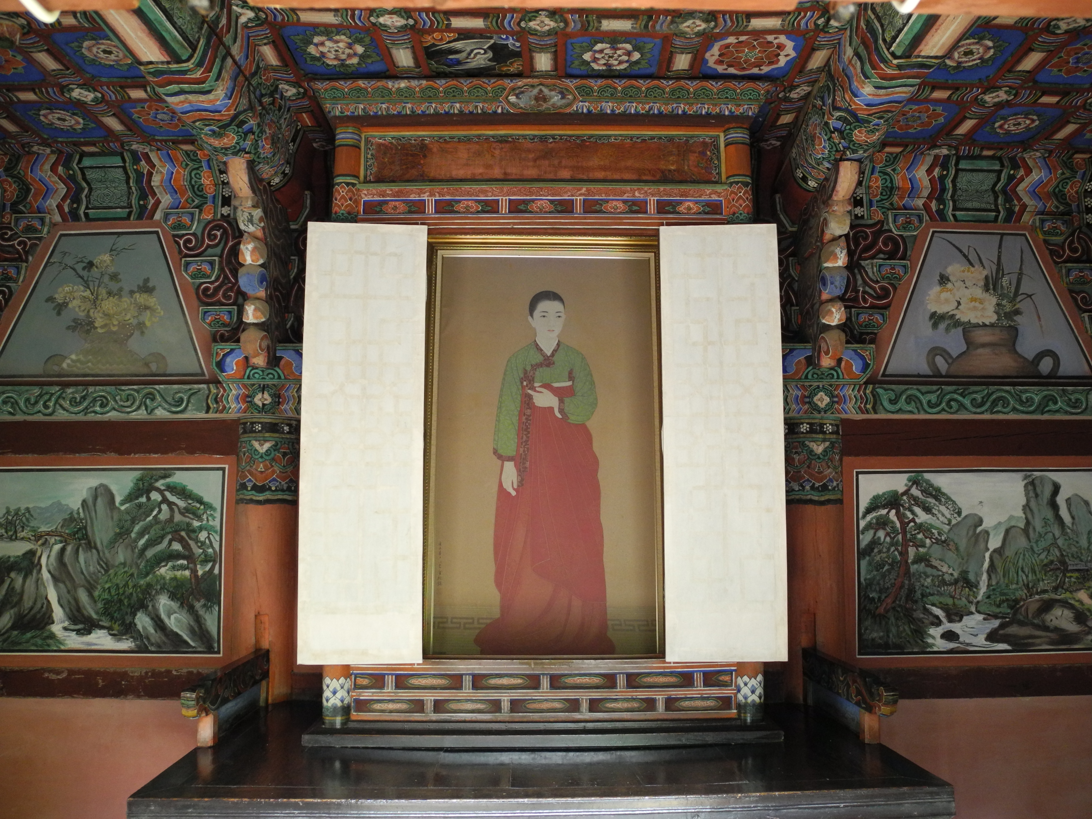 Shrine of Chunhyang at Gwanghallu Garden (Namwon).